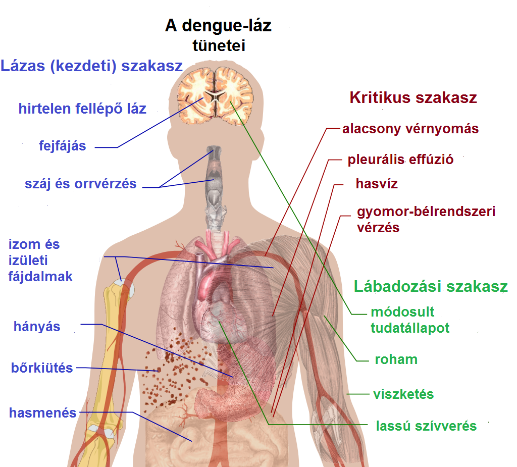 Main symptoms of dengue fever.